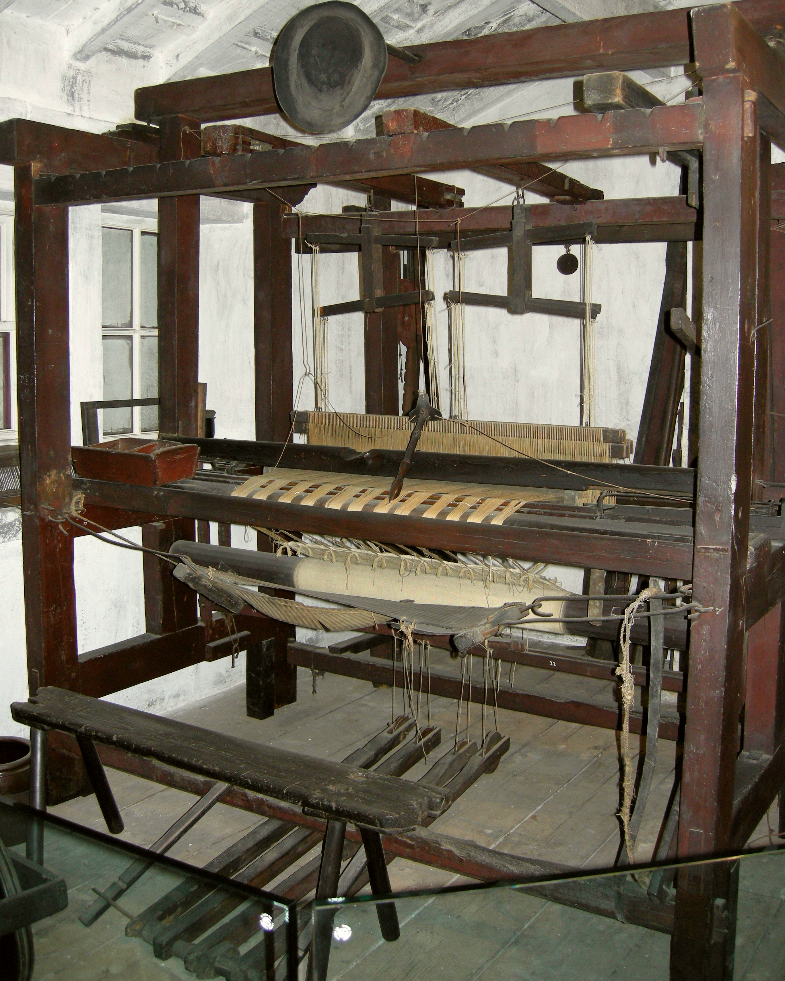 Victorian hand-loom, in Timmy Feather's Workshop, in Working Landscapes gallery, Cliffe Castle Museum, Keighley, West Yorkshire, England.